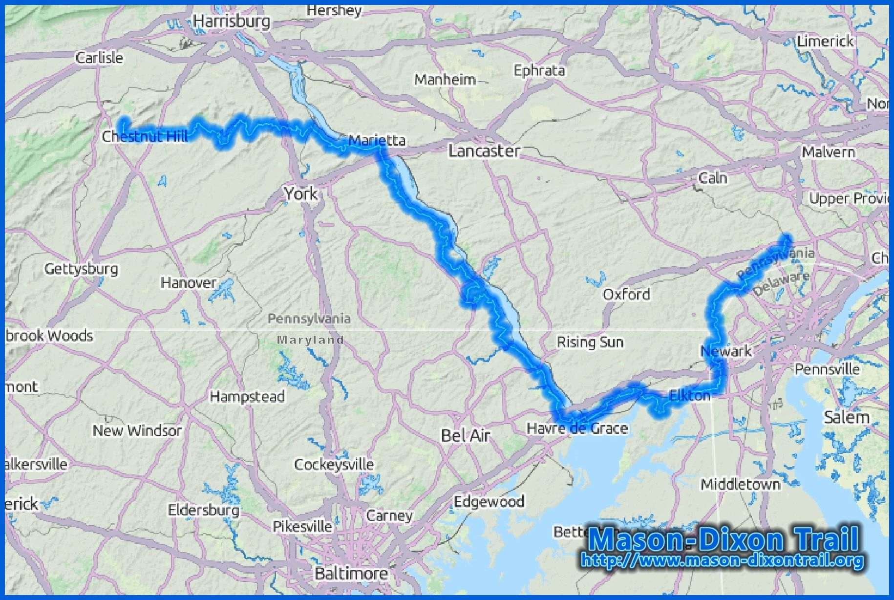 This is a rough over-view of the 200 mile long Mason-Dixon Trail, a nationally recognized hiking trail in the Northeastern United States.